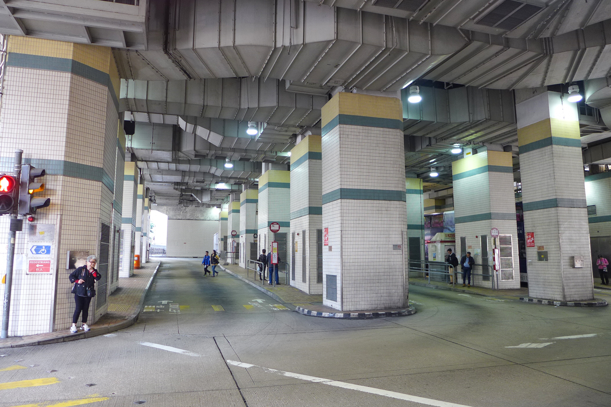 Ping Shek Public Transport Interchange